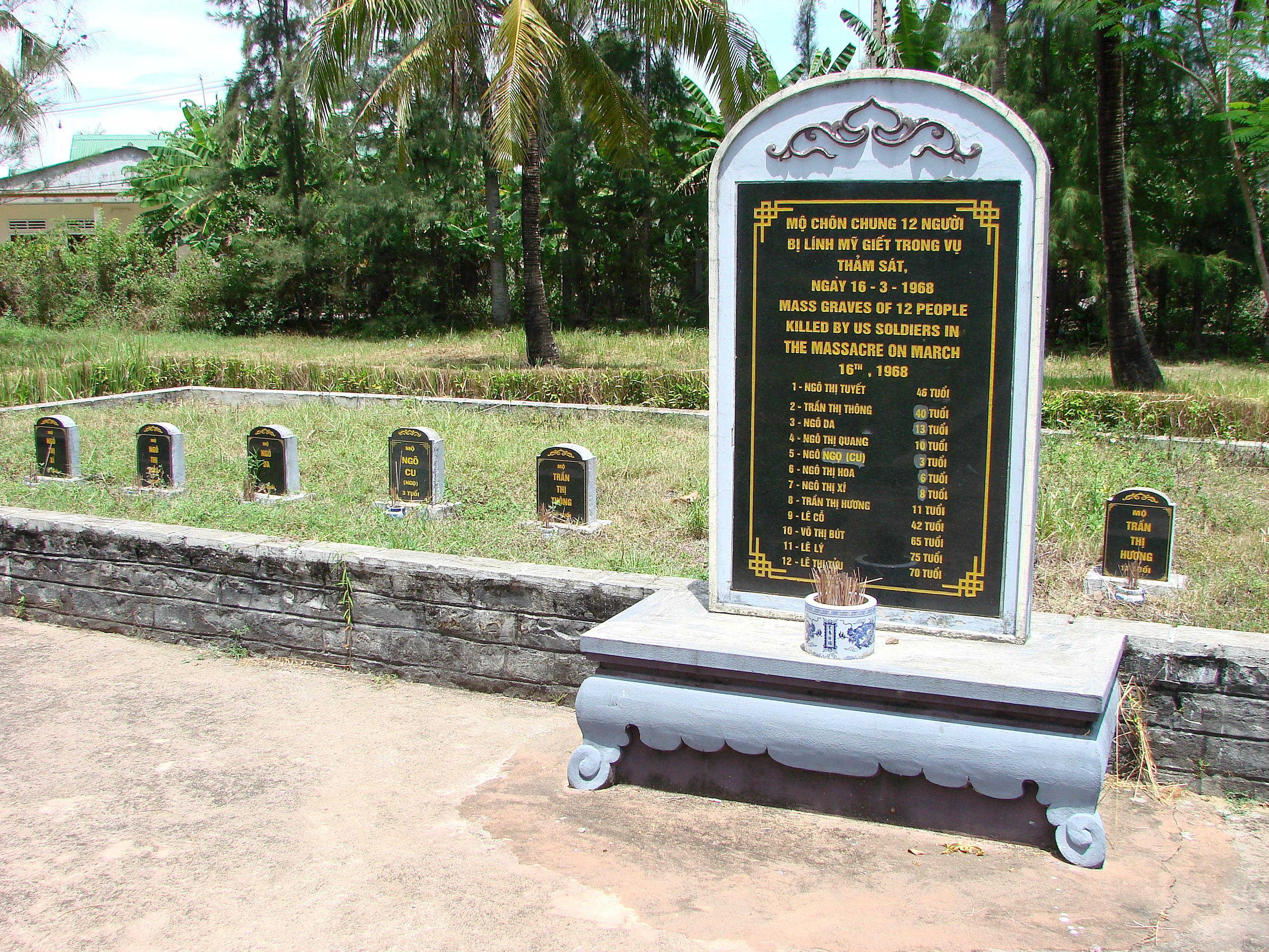 Mass grave for 12 victims of the My Lai massacre, 16 March 1968. My Lai memorial site, near Quang Ngai, Vietnam. June 2009.